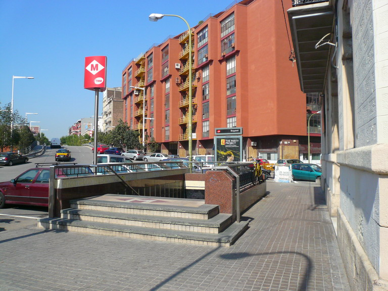 Bogatell station, Barcelona Metro.